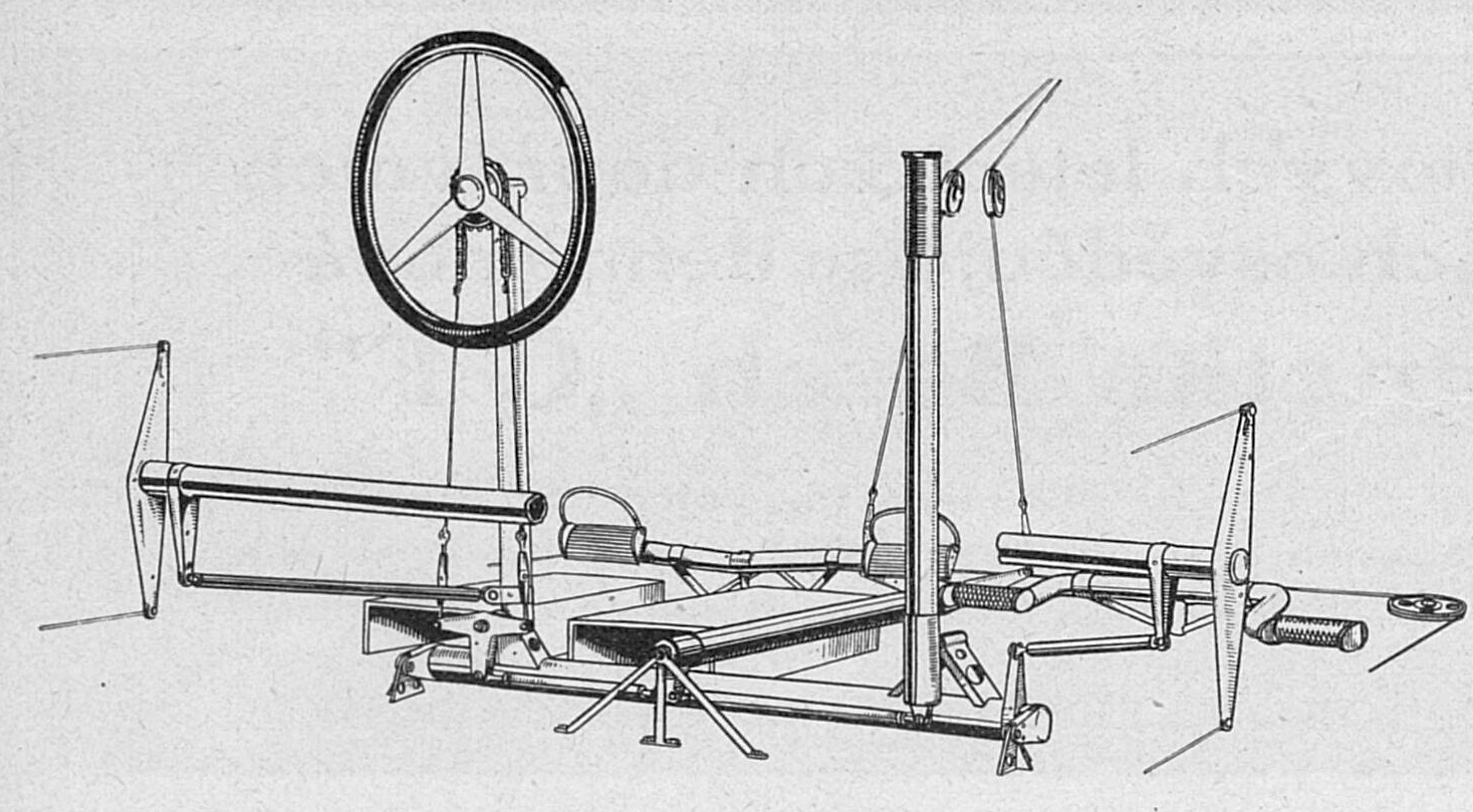 Aero A.23 detail drawing from L'Air July15,1928